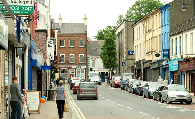 Market Street, Downpatrick The main street in Downpatrick with Irish Street running across in the background.